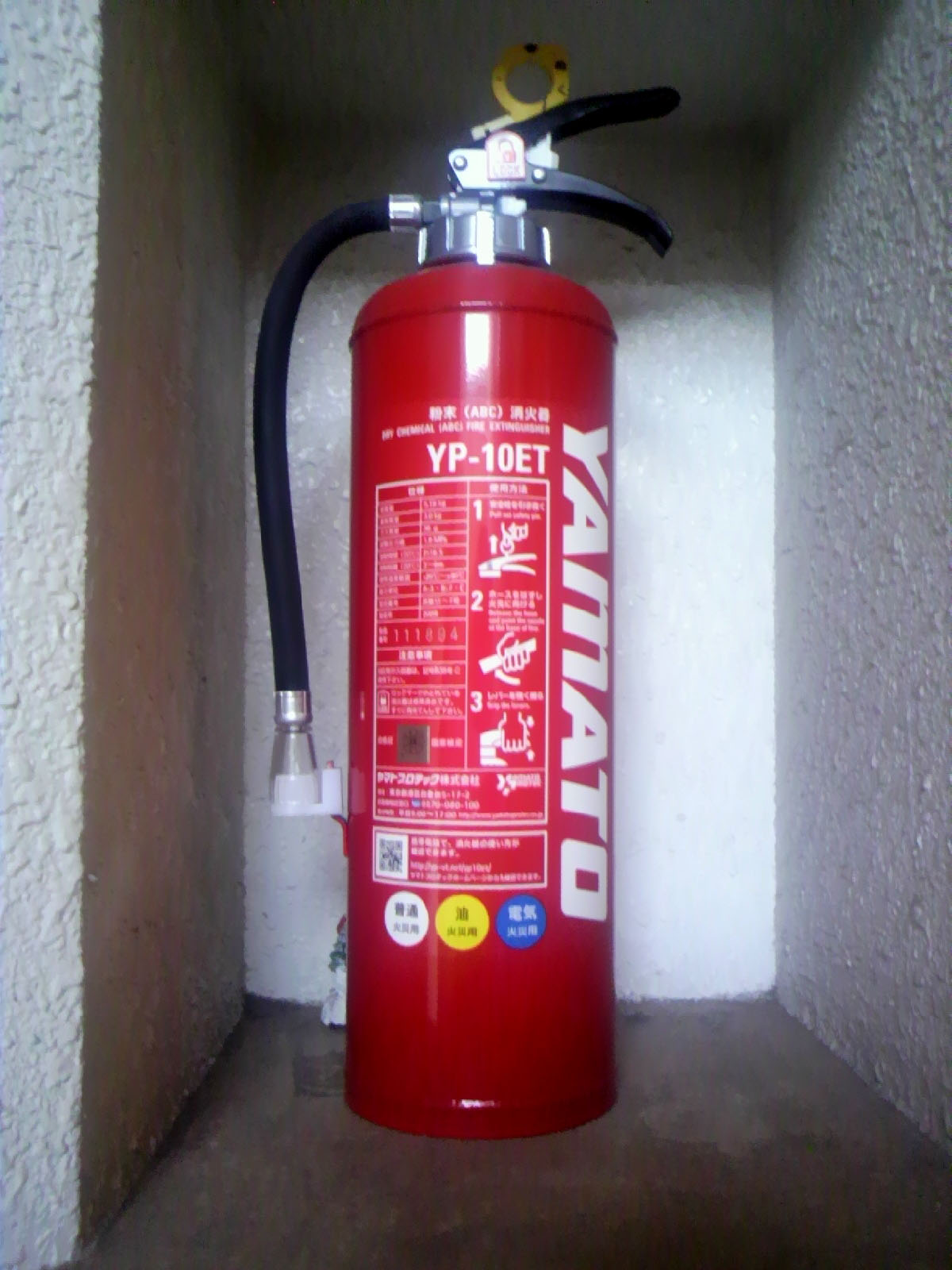 YamatoProtec YP-10ET Fire Extinguisher(made in 2009)